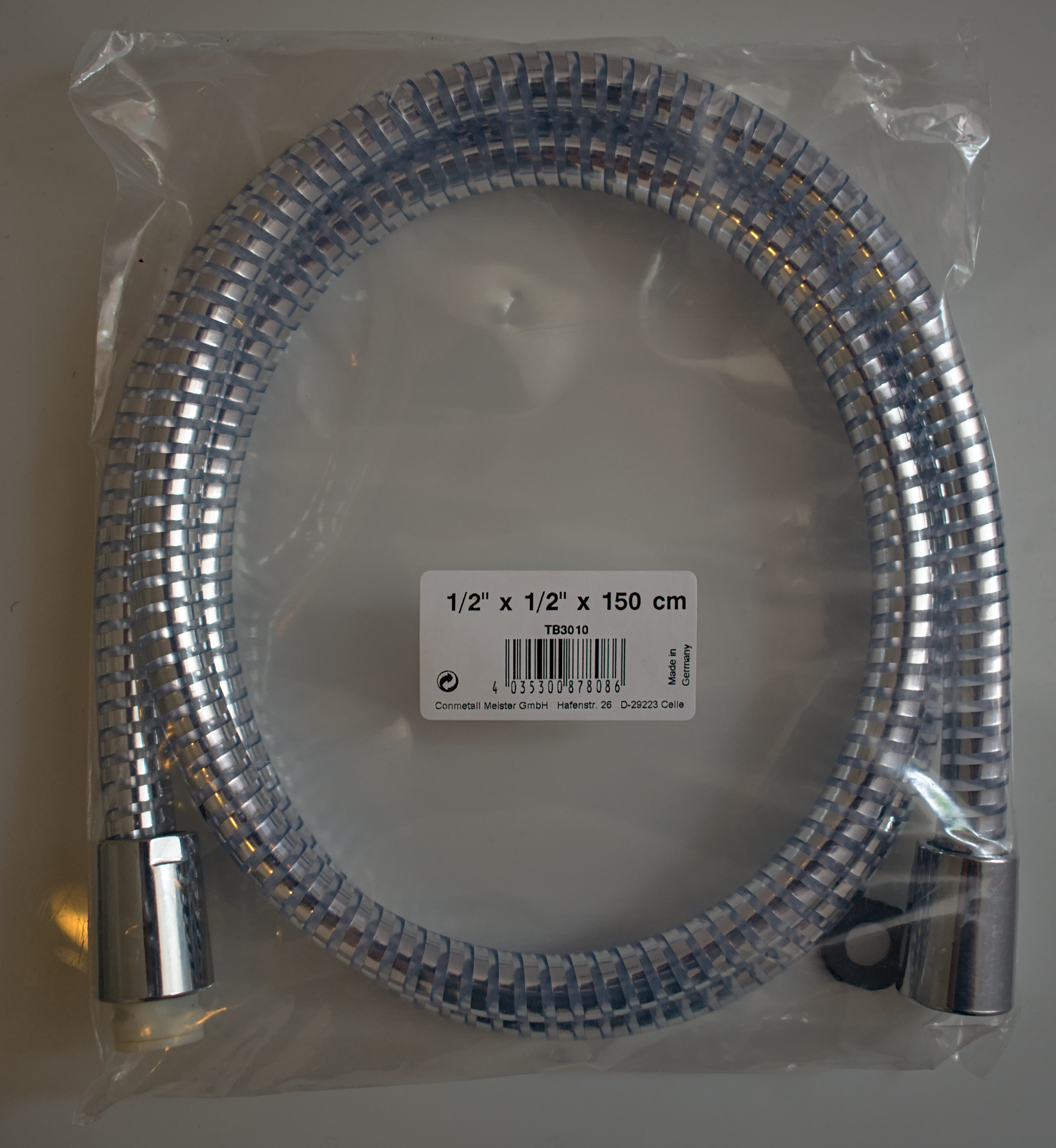 A shower hose sold in Germany in its original packaging. It uses a mixture of metric and imperial units - the length is 150cm, while the screws use the standard half-inch fittings to attach to the water source and shower head.